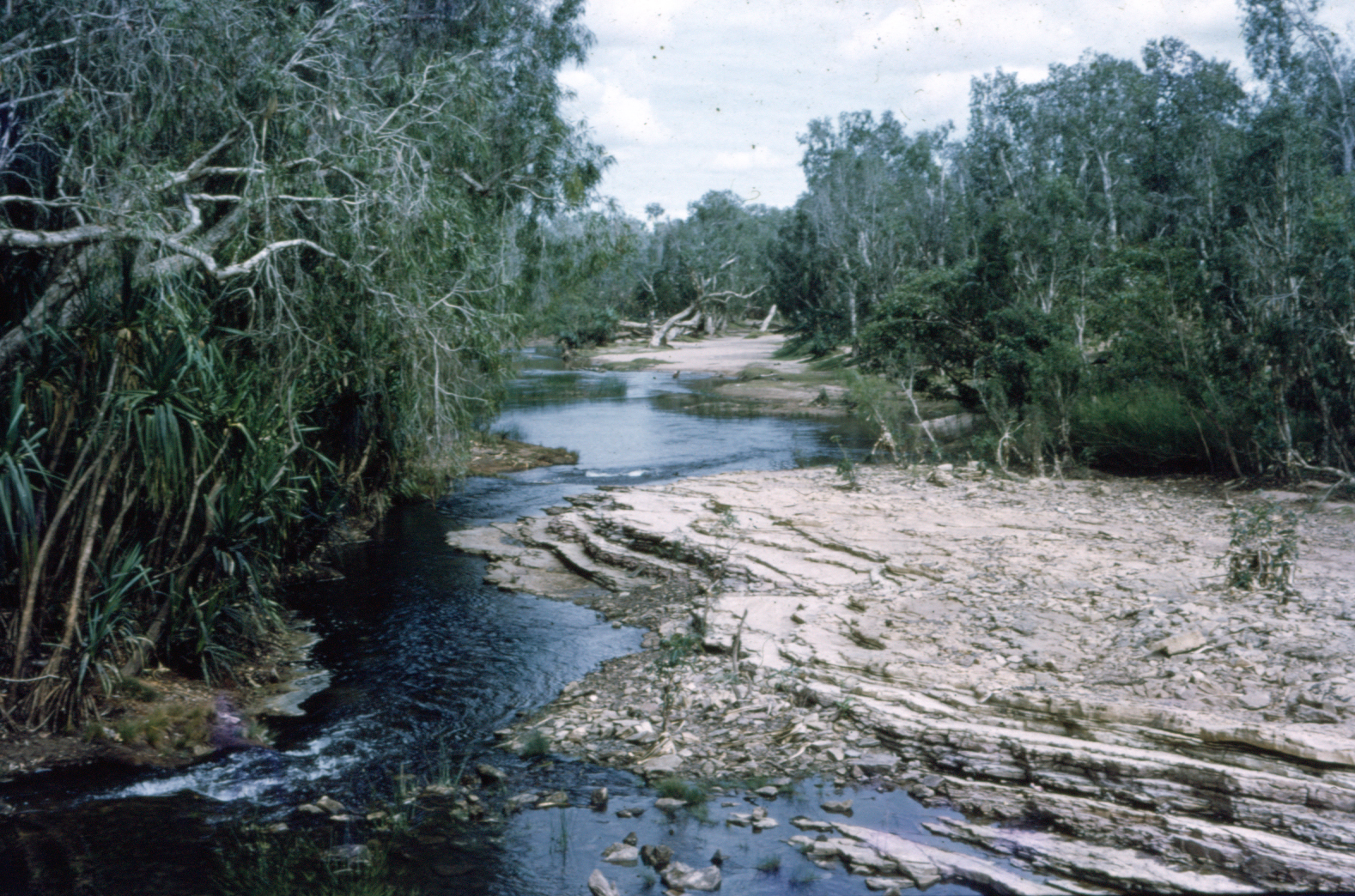 The Katherine River from the Low Level bridge in June 1962. This bridge was part of the Stuart Highway until a high level bridge was built into the town in later years.